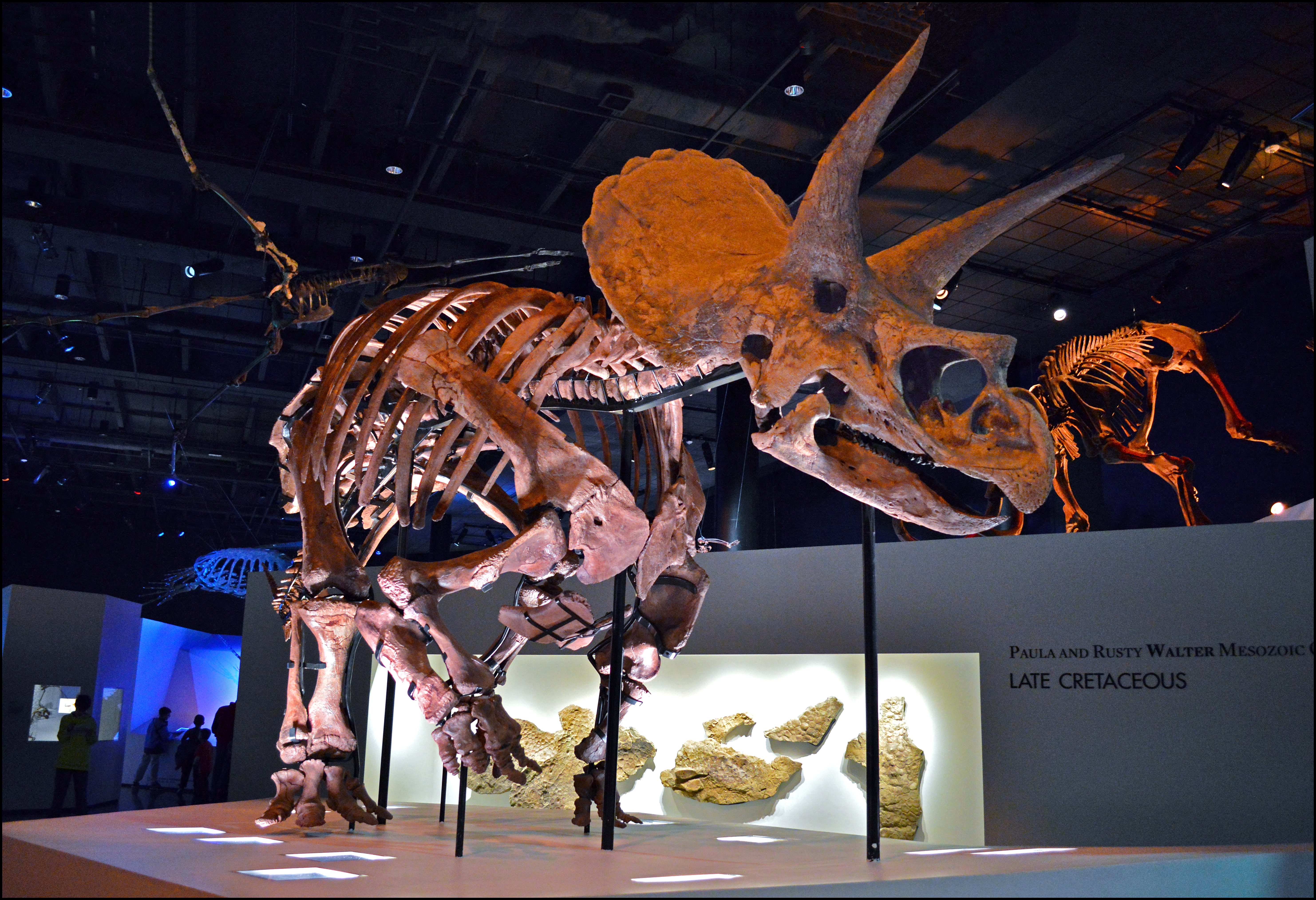 Triceratops Specimen (nicknamed "Lane") at the Houston Museum of Natural Science.